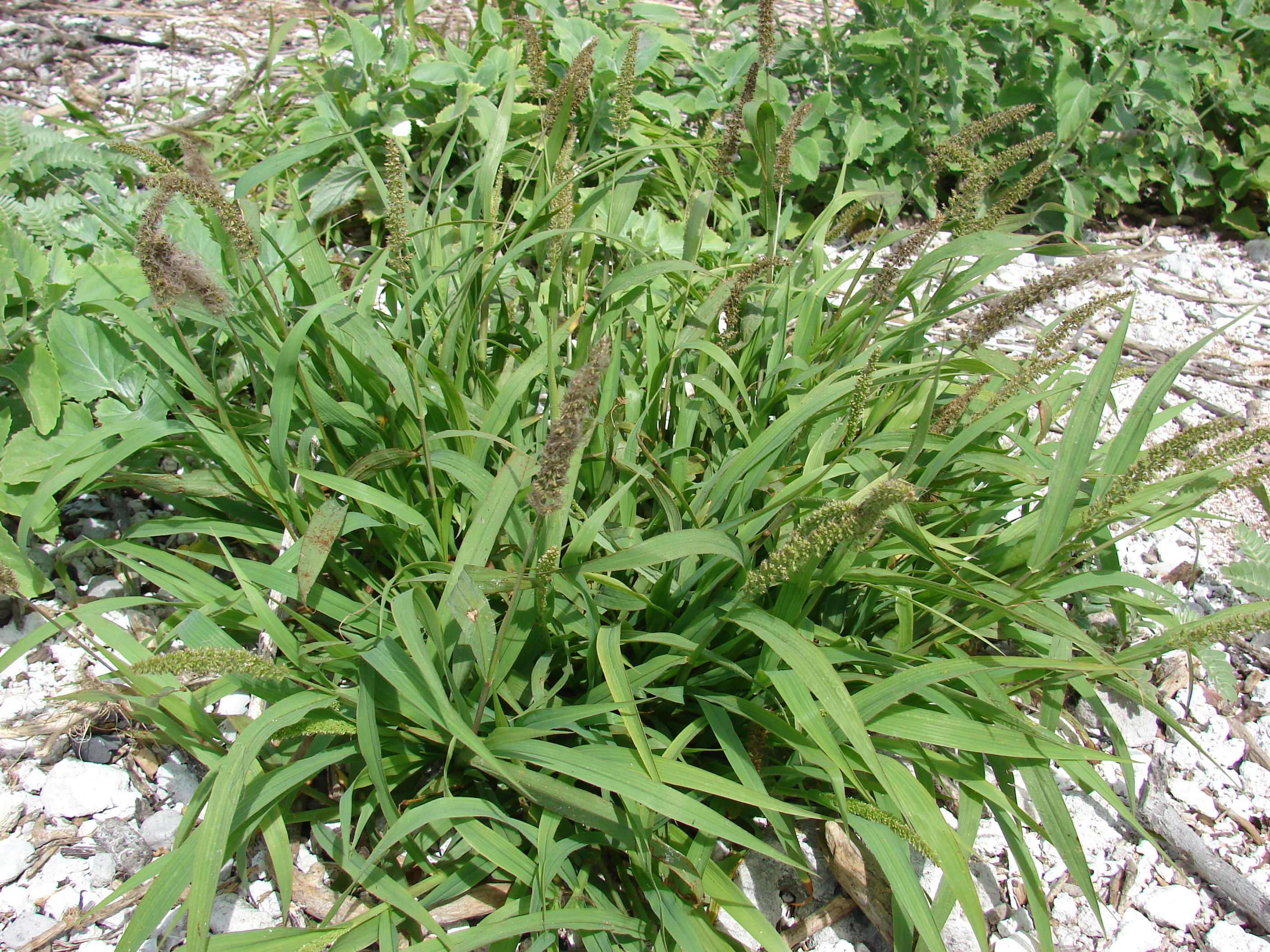 Setaria verticillata (habit). Location: Midway Atoll, Eastern Island